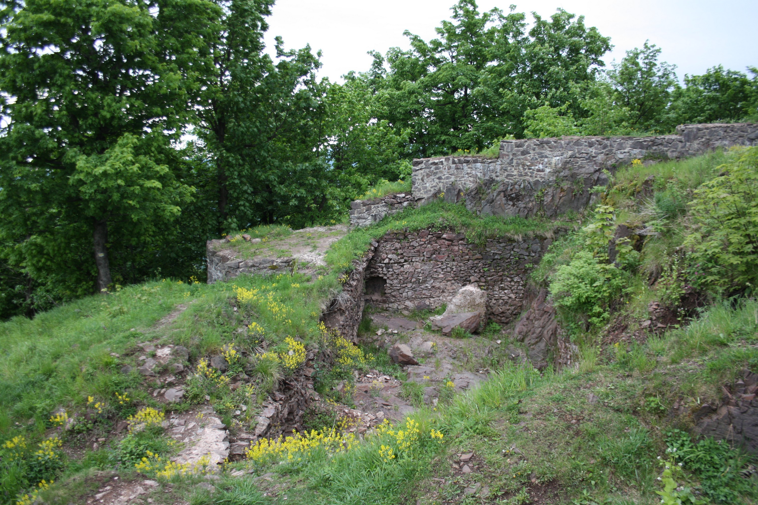 Ruins of Rogowiec Castle, Lower Silesian Voivodship, Poland.